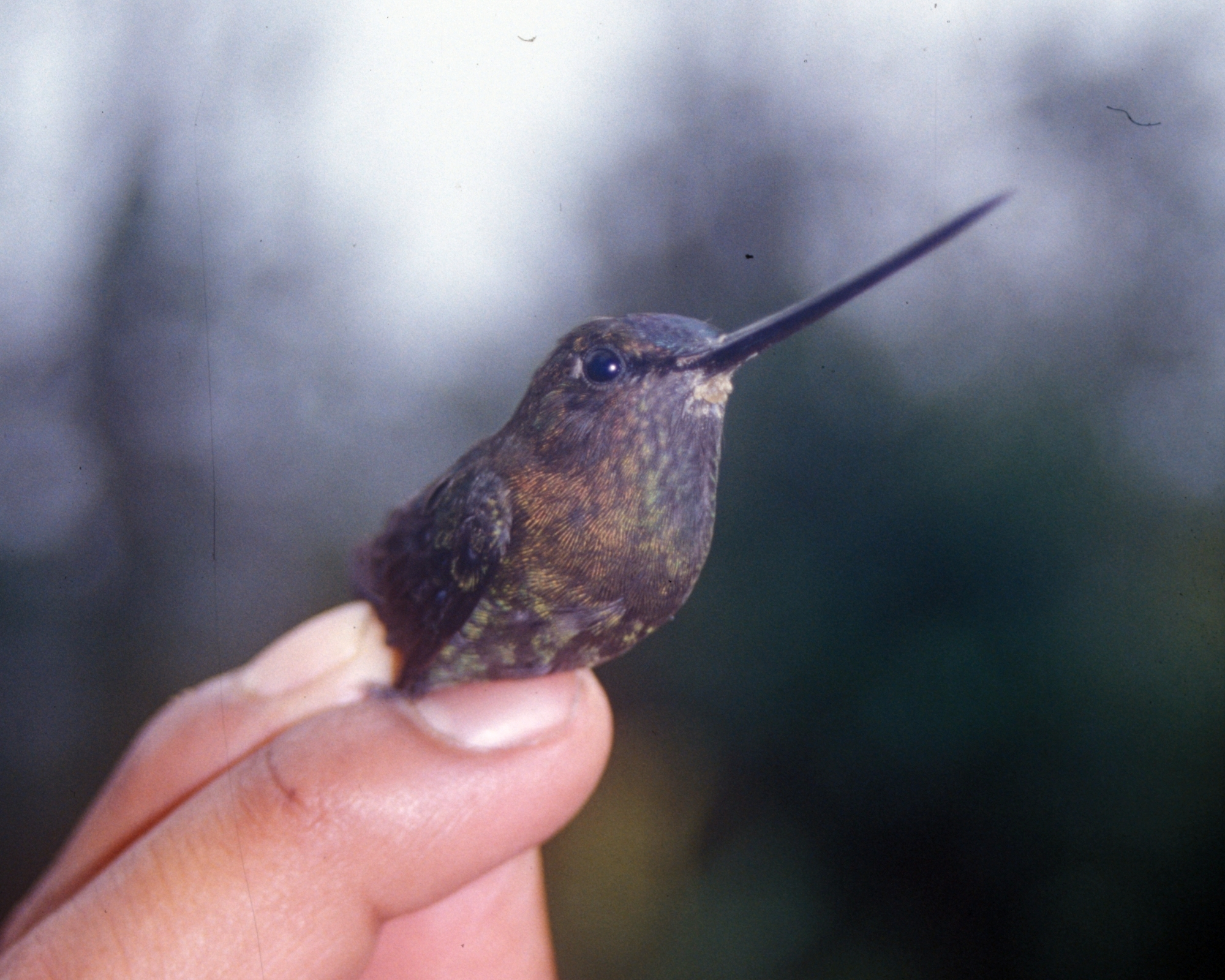 Green-fronted Lancebill (Doryfera ludovicae) from Ecuador